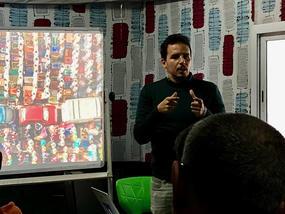 Yoriyas, Yassine Alaoui Ismaili, presenting in the roof tent of the American Language Center in Casablanca. This picture was taken as Yoriyas was telling the story of how he captured his photograph of cars separating Muslims at prayer (projected to his side), and how he sent it to National Geographic shortly before his hard drive crashed and almost all of his work was lost.